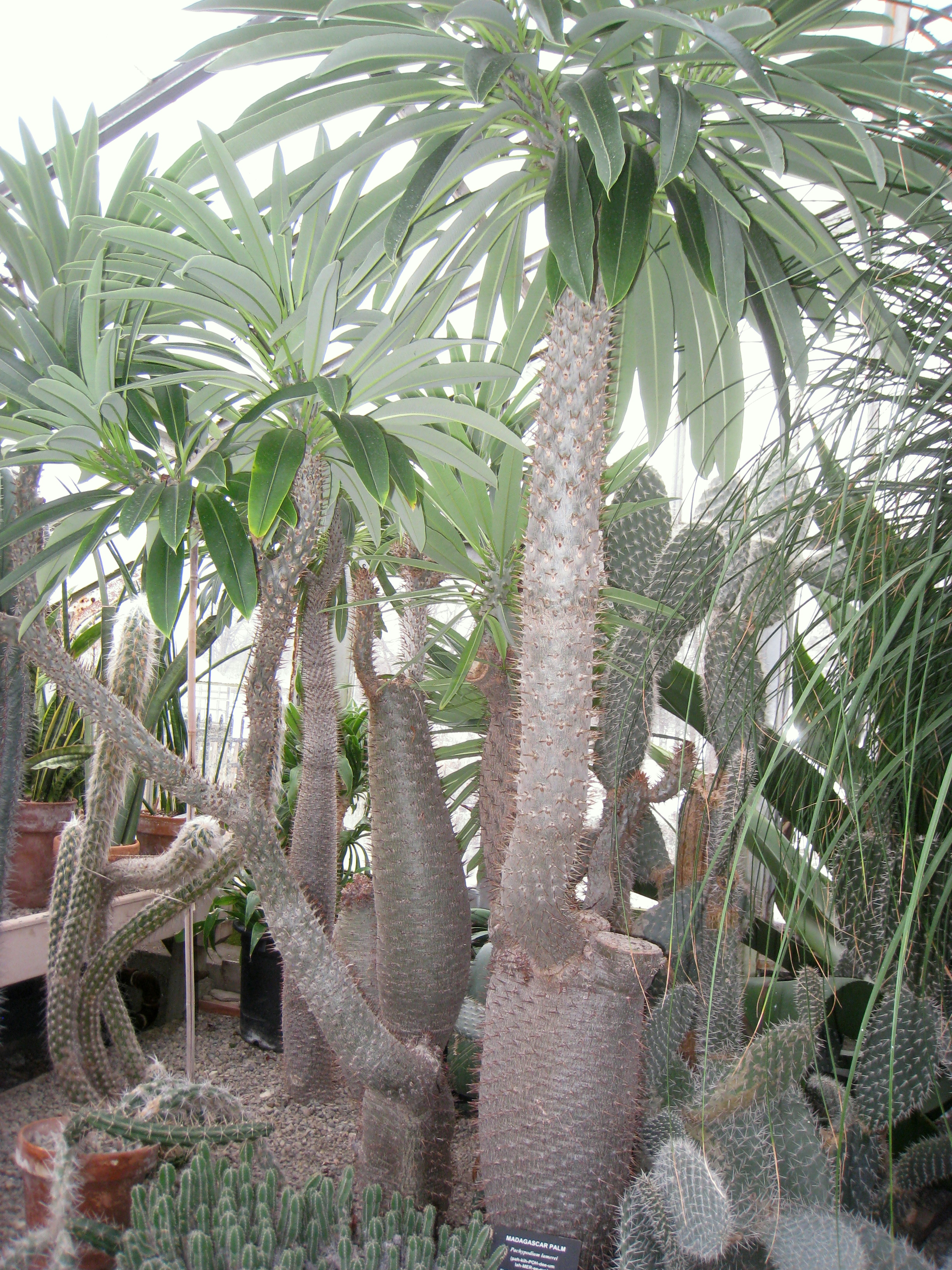 Pachypodium lamerei specimen in the Buffalo and Erie Country Botanical Gardens, Buffalo, New York, USA.